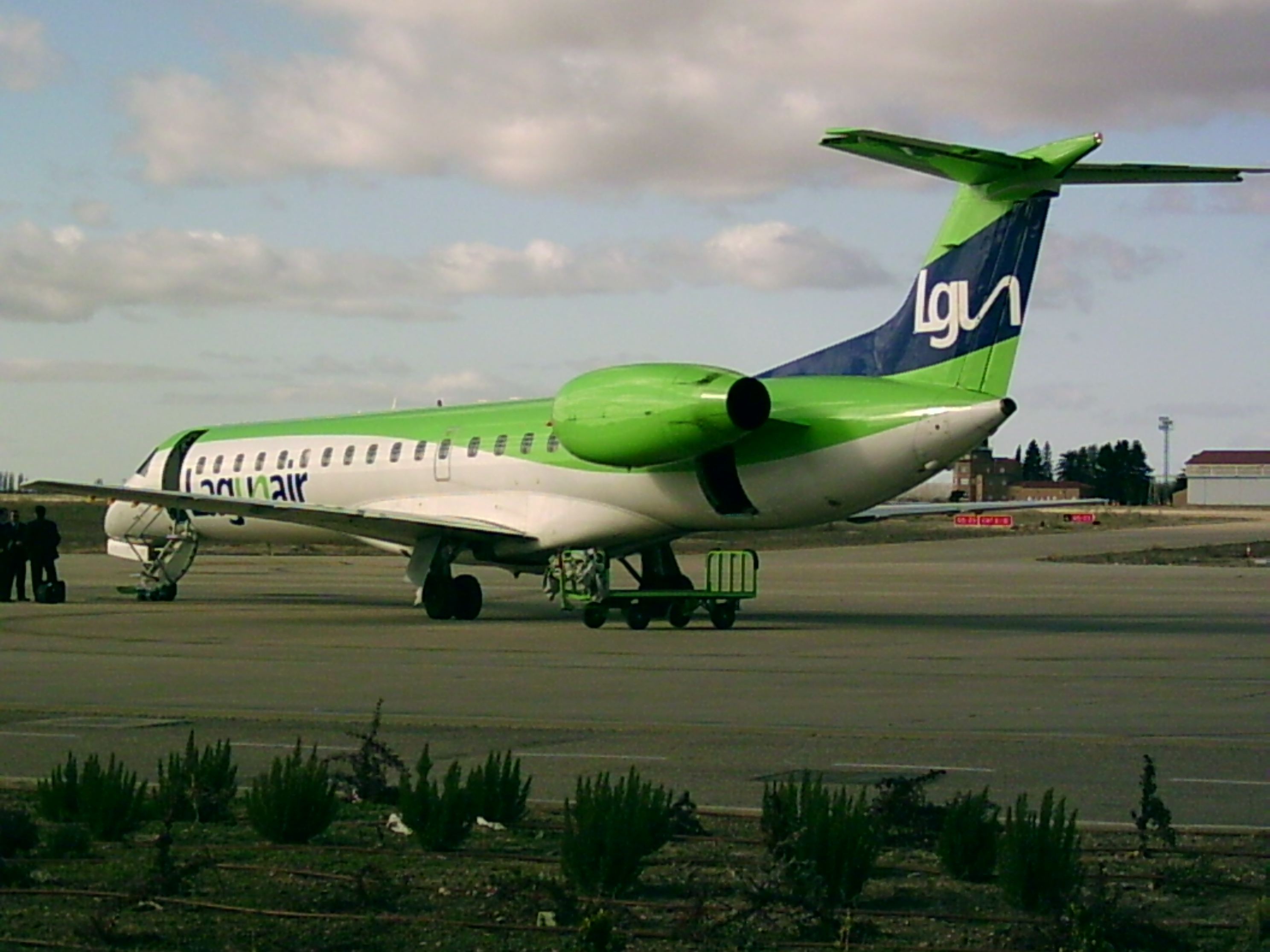 ERJ145 in apron of Valladolid Airport